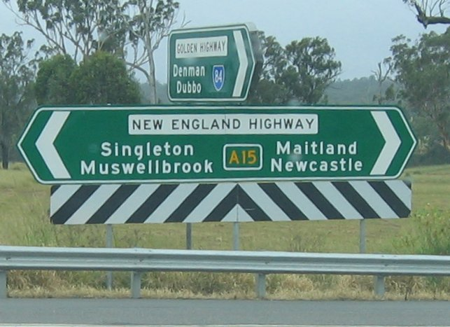 The Golden Highway and New England Highway direction signs at their intersection.